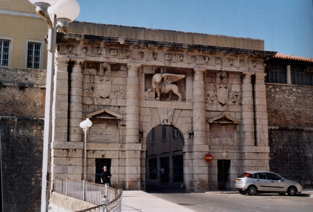 "Porta Terraferma" in Zadar, built under the Venetian rule (the Lion of Saint Mark was the symbol of the Republic of Venice).